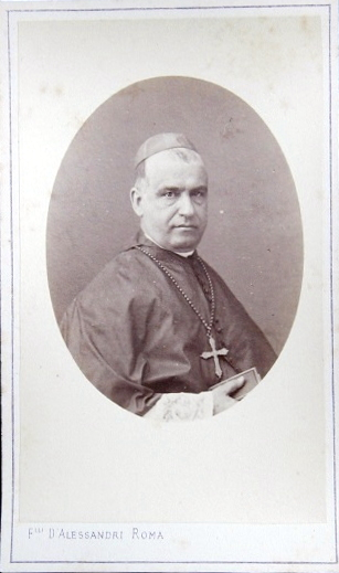 Bartolomeo d'Avanzo (Avella, 3rd of July 1811 - 20th of October 1884), bishop of Calvi and Teano. Picture taken in 1869 during the First Vatican Council, where the sitter attended as Council Father.